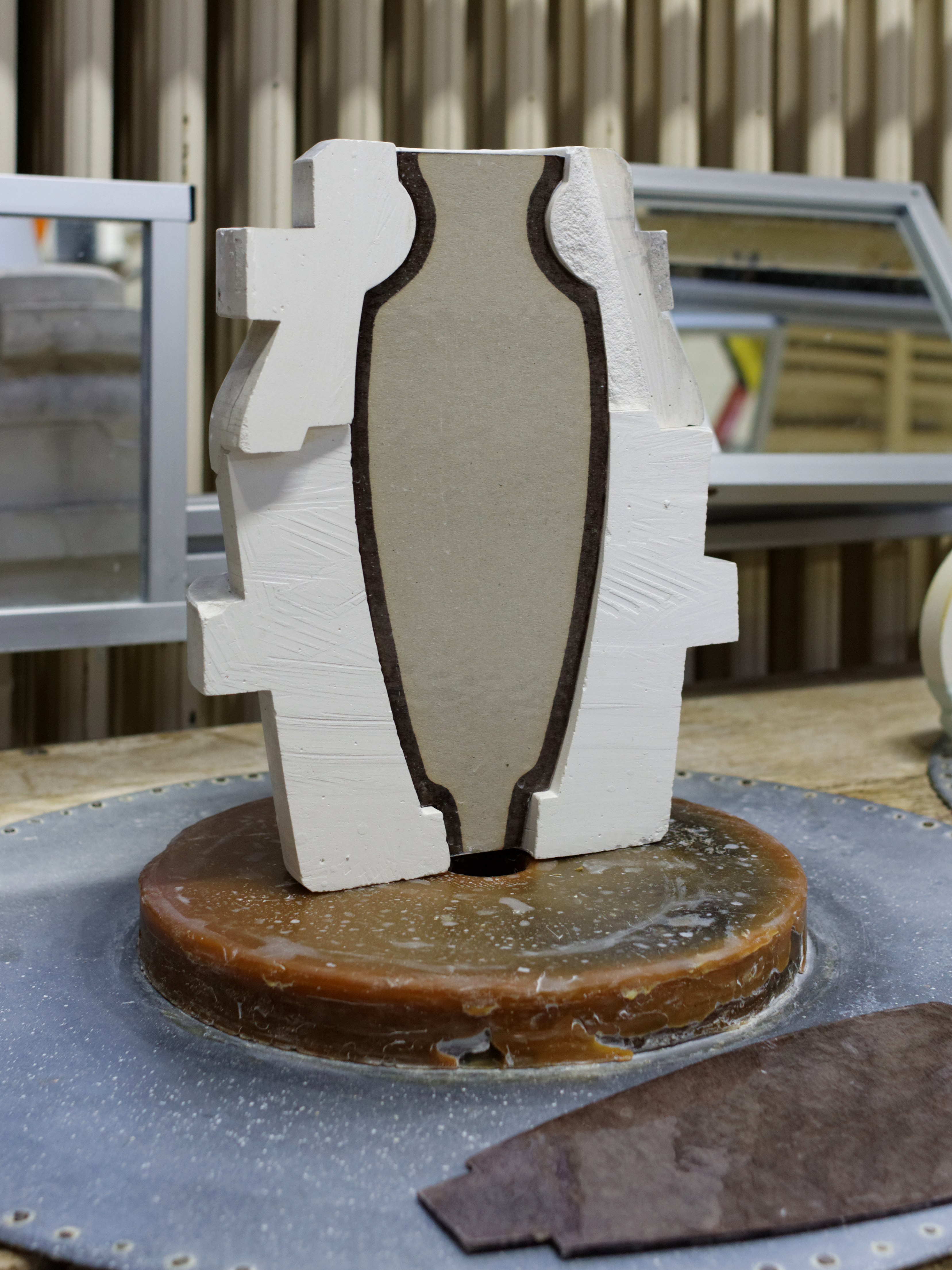 Large-scale casting (slipcasting) workshop of the manufacture nationale de Sèvres. Explanatory model.